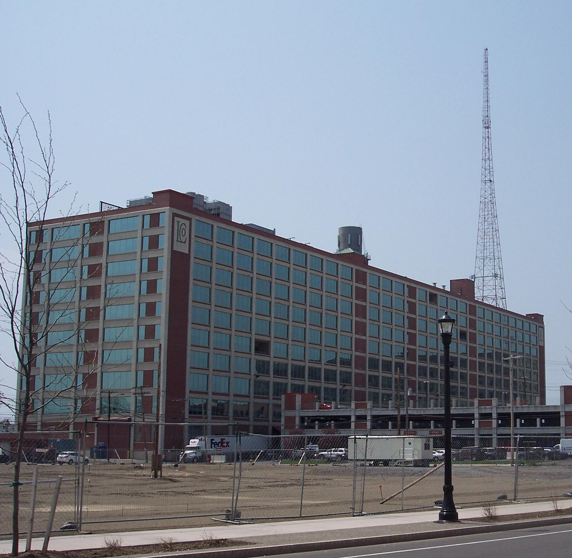 Larkin Terminal Warehouse, 726 Exchange Street, Buffalo, New York. Building also know as Larkin at Exchange or the LCO building.